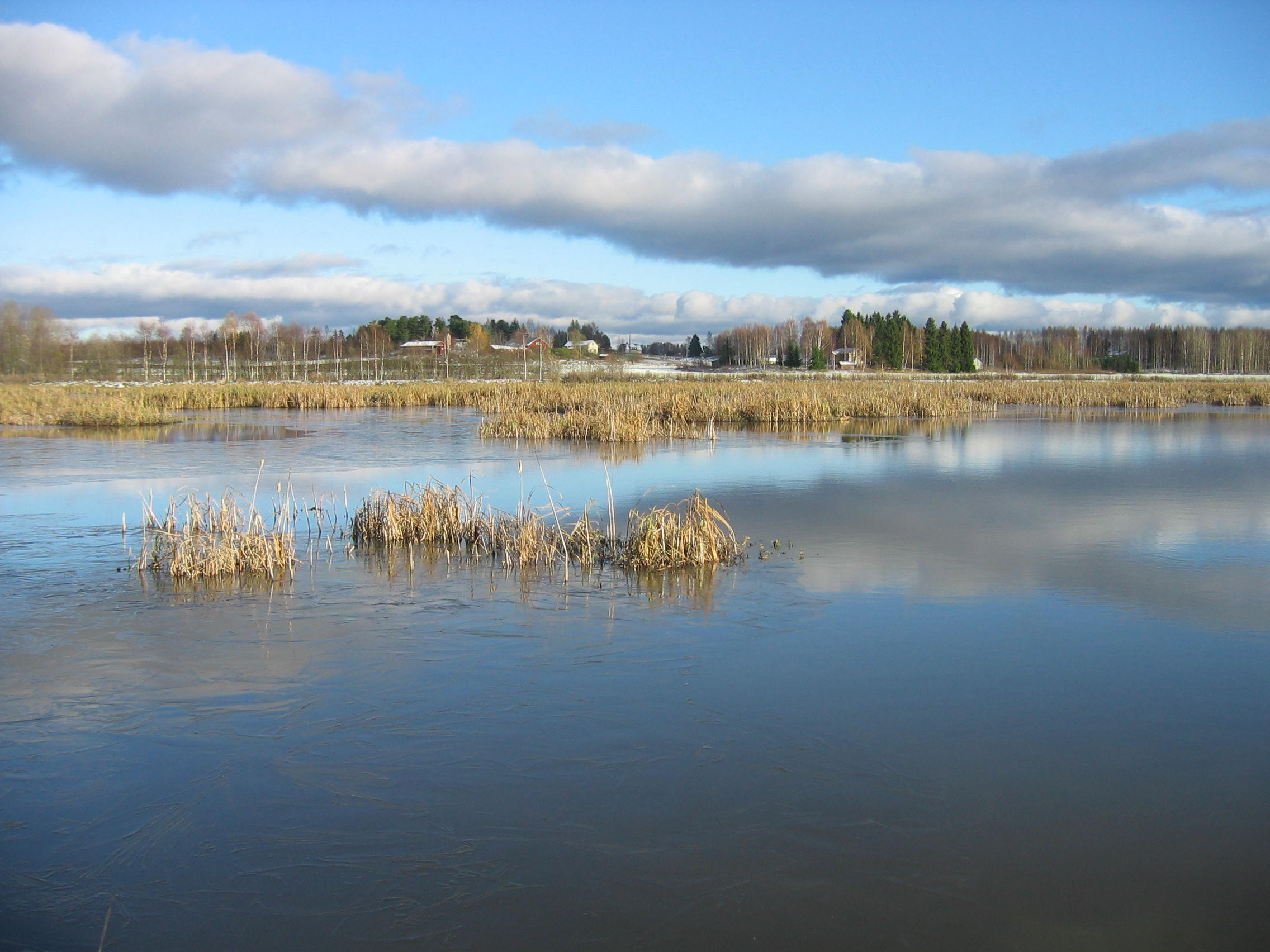 Siikalahti of Lake Simpelejärvi in Parikkala, Finland.